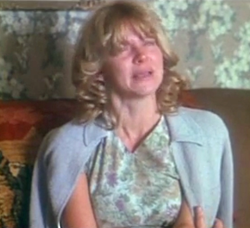 Melinda Dillon in trailer for "Bound For Glory" (1976)